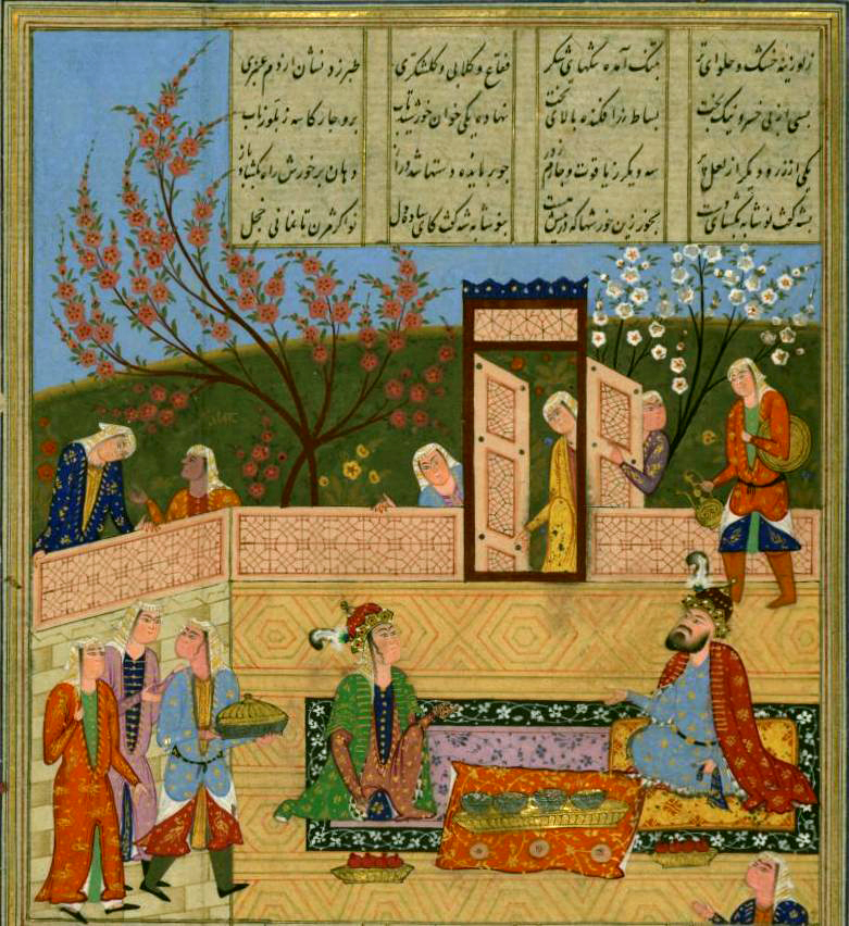 Nizami Ganjavi - Alexander the Great Meets Nushabah in her Palace - Walters W610284AAzərbaycanca: Makedoniyalı İskəndərin Nüşabənin sarayında onunla görüşməsi